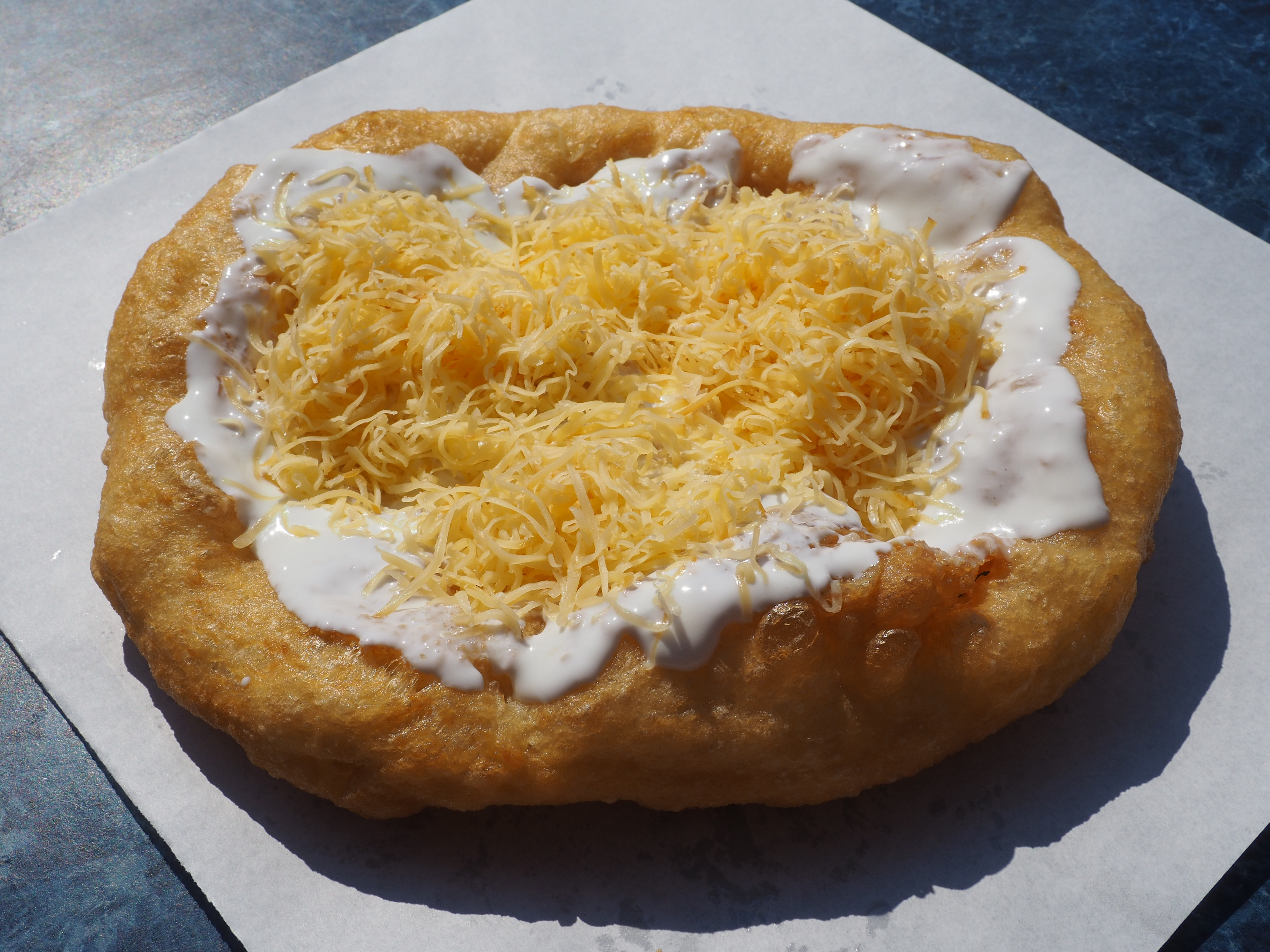 Langos Eger Hungary